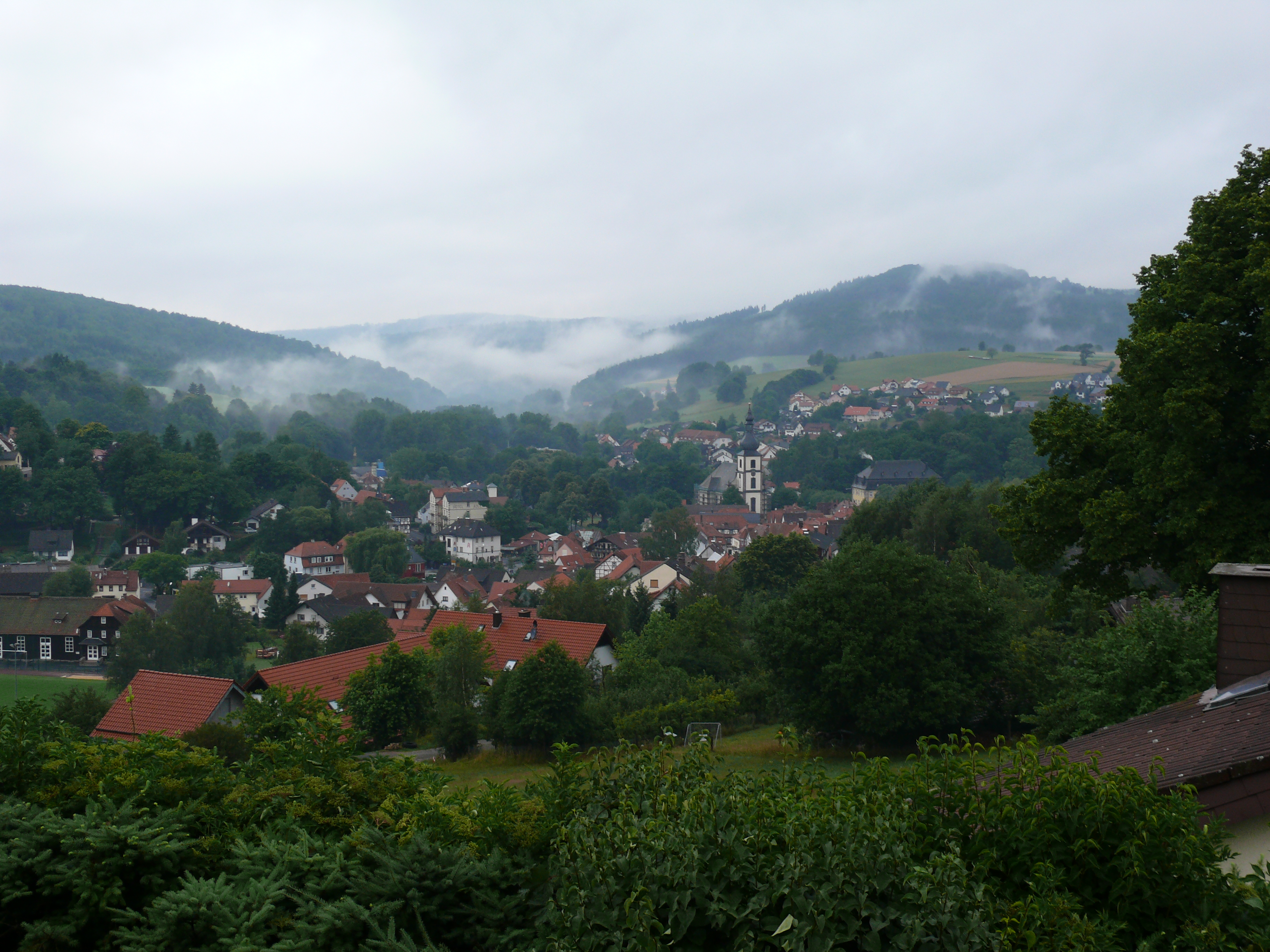 the town gersfeld